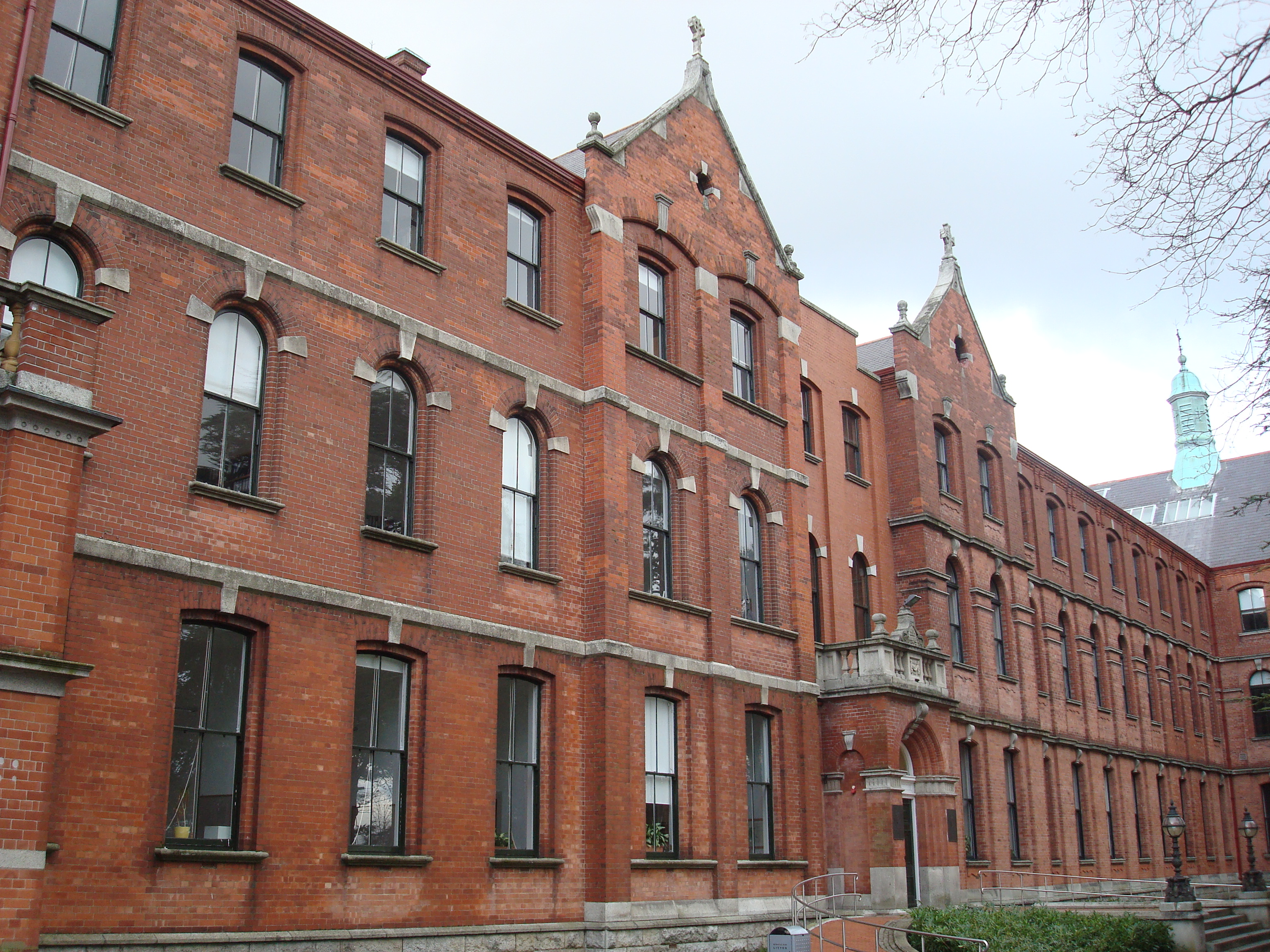 UCD Michael Smurfit Business School formely Our Lady of Mercy College, Carysfort